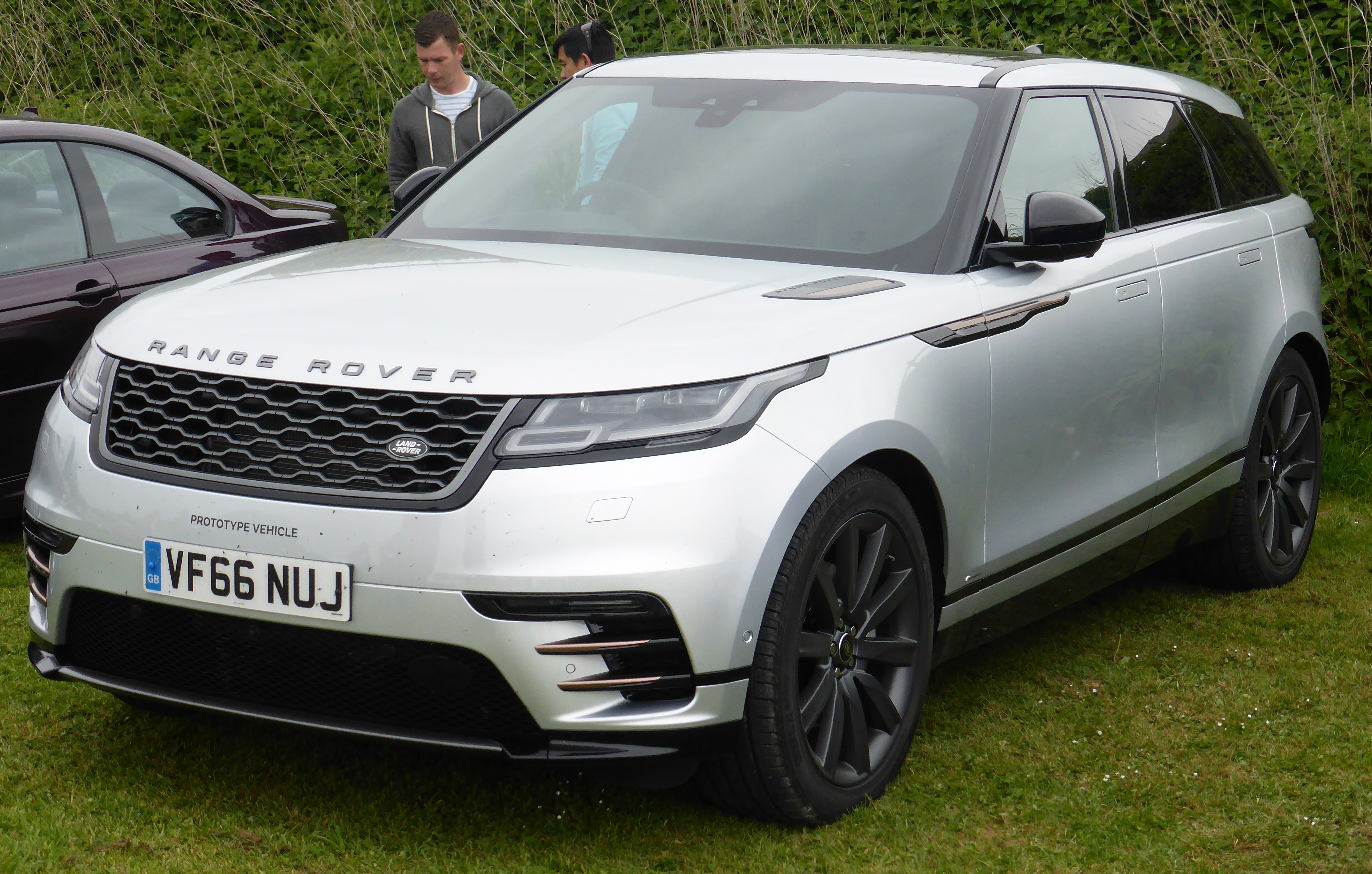 Haynes International Motor Museum Breakfast Club